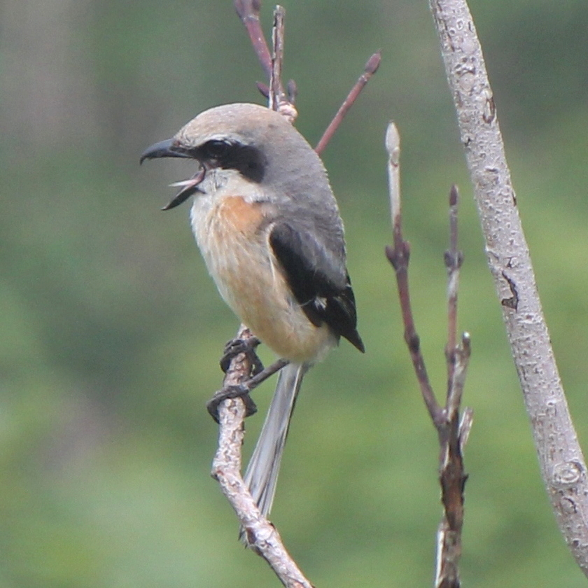 Bull-headed shrike (Lanius bucephalus), male singing in Mount Ibuki, Shiga prefecture, Japan.